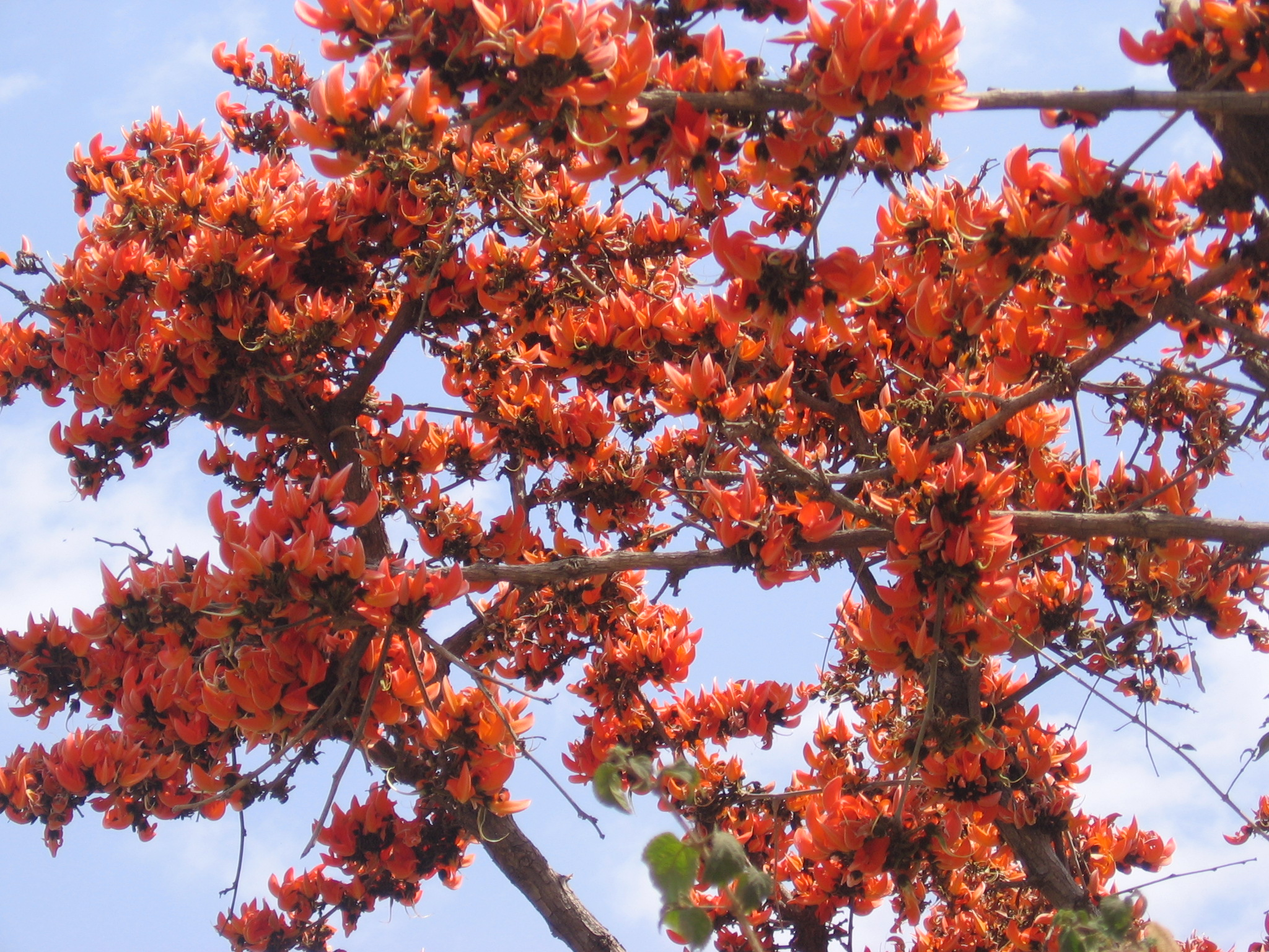 Family: Fabaceae Commony known as Palasa or Flame of the forest..It yeilds red KINO gum. The flowers yeild a orrange red dye. Distribution: Occassional in dry deciduous forests. Found in India, Sri lanka, S.E.Asia, Malaysia.Photographed at Velugonda hills of Eastren ghats, Andhra Pradesh. Description:Deciduous trees 5-8mts tall,conspicuous in flower, Leaves 3 foliate, Leaflets 9-15x8-12cm, obovoid- rhomboid, entire, obtuse or base cuneate, serecious below, Flowers 4-5cm long, orrange scarlet in 20-30cm long dense racemes. Flowers showy, densly fascicled in racemes. Bracts and bracteoles narrow, caducous.Calyx 5, broadly companulate, the 2 upper connate.Corolla5, standard ovate-acute,recurved, equal to or shorter than the keel, wings falcate, adnate to the keel, Stamens 10, didelphous, anthers all are equal, ovary sessile, 2 ovuled, style incurved long, Pods oblong, flat, dense, velvetty brown hairy. Reference: Flora of Nellore district by B.Suryanarayana & A.S.Rao.Flora of presidency of Madras by J.S Gamble, ENVIS